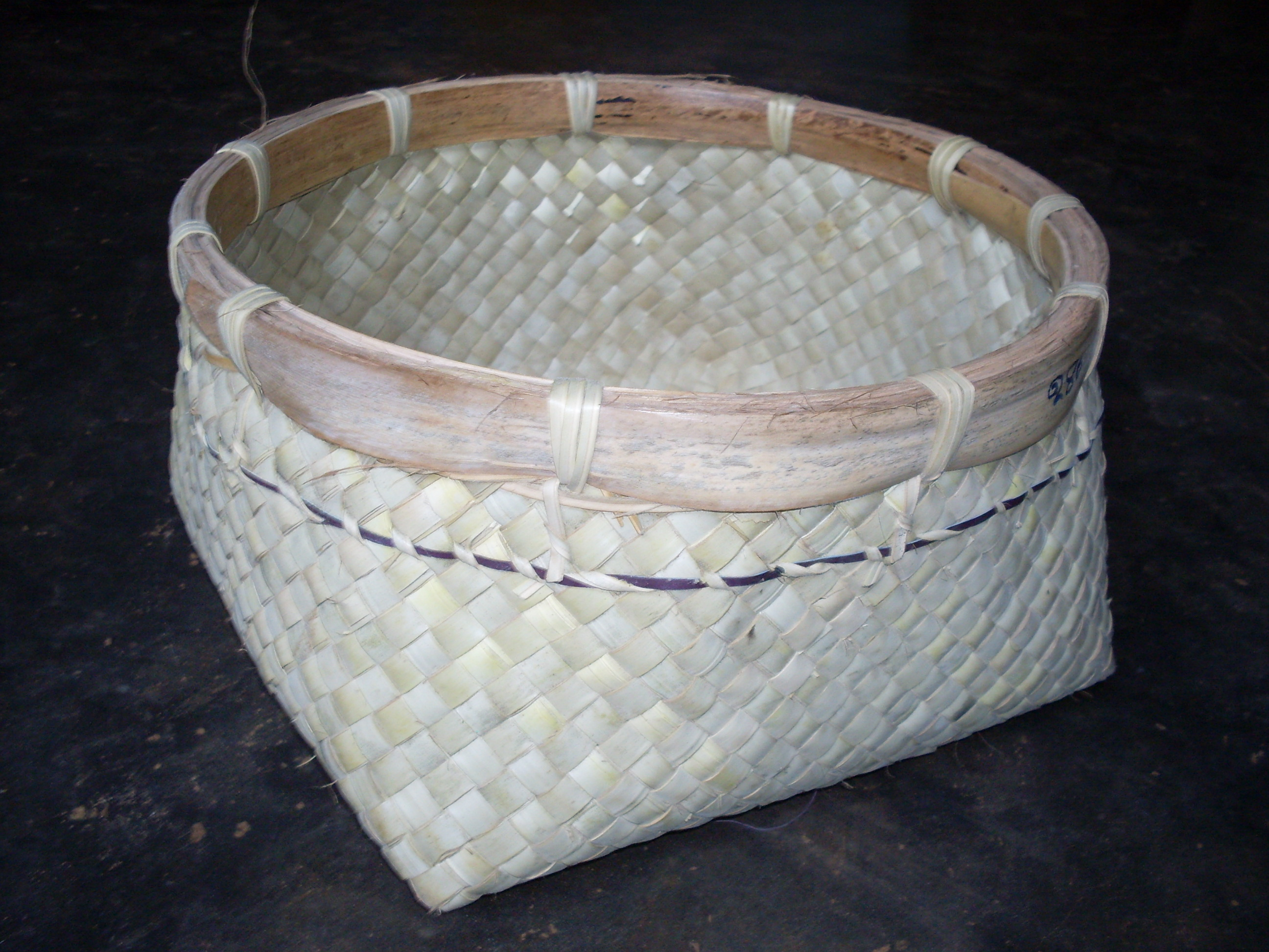 "Kadakam" produced and used in Jaffna, Sri Lanka.